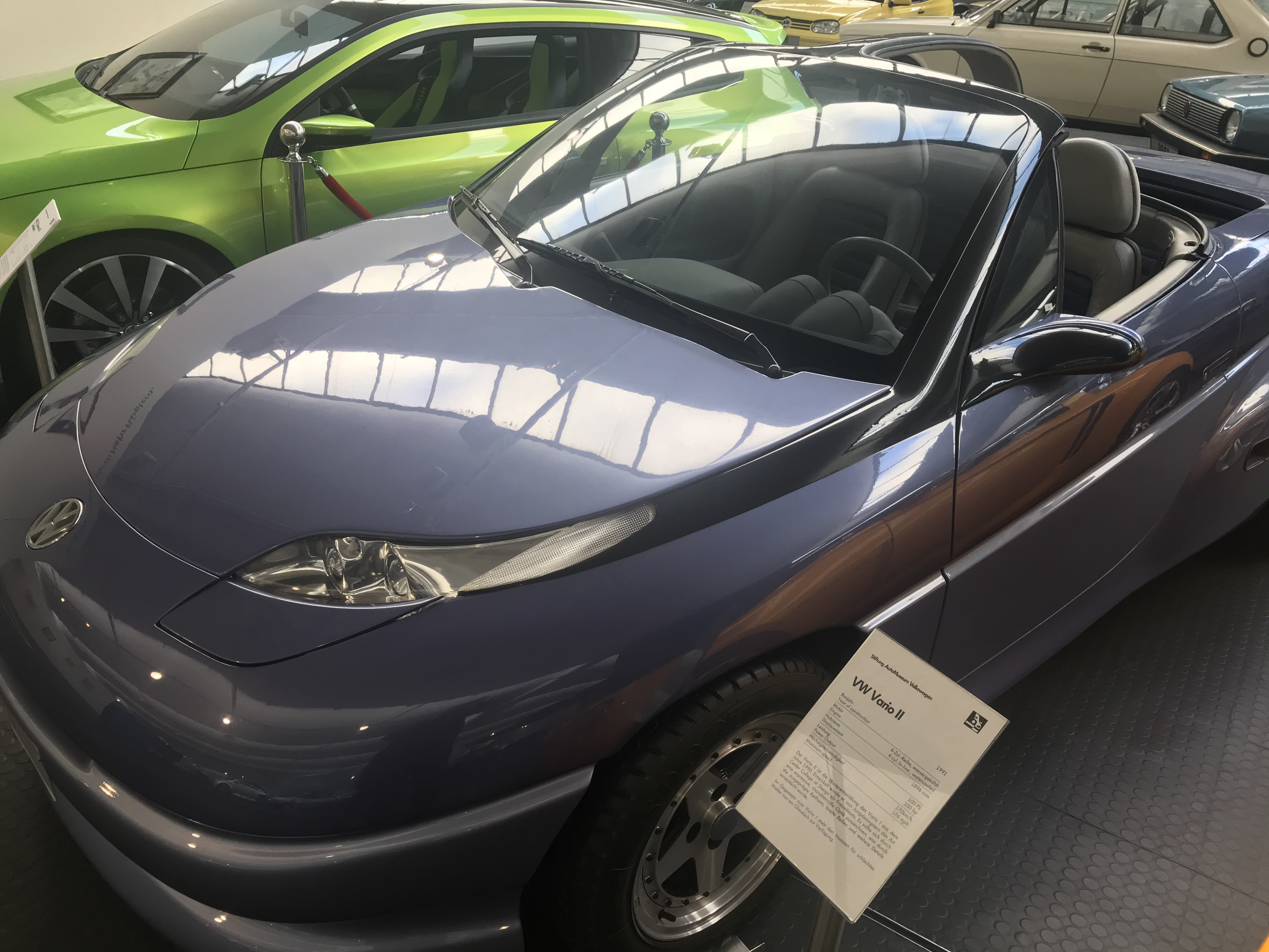 VW Vario 2 exterrior. The roof was taken down.